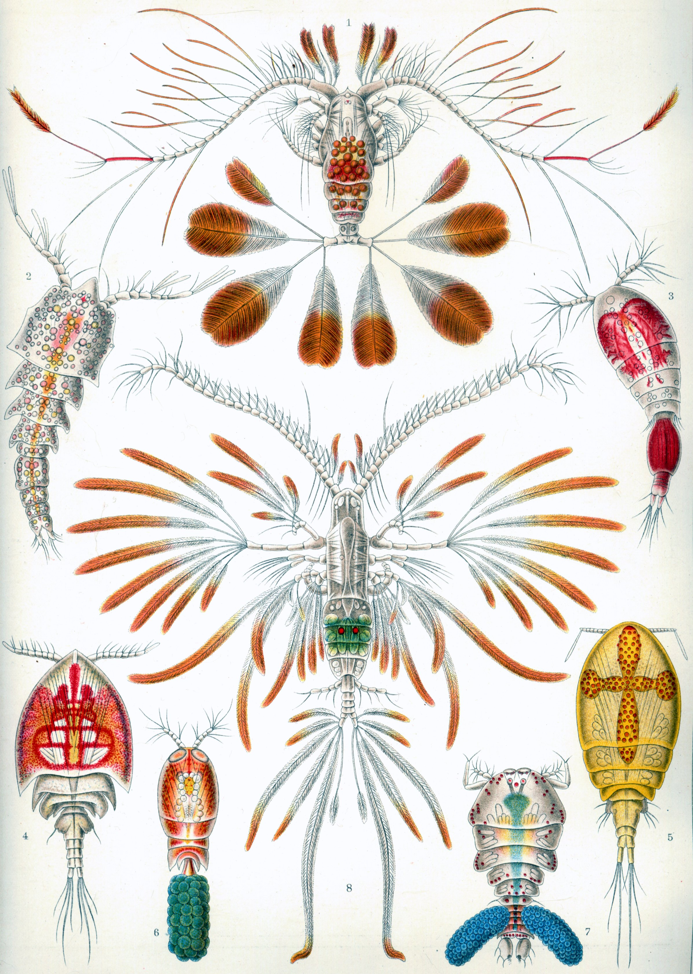 Calanus pavo (Dana) = Calocalanus pavo (Dana, 1852), male Clytemnestra scutellata (Dana) = Clytemnestra scutellata Dana, 1849, female Oncaea venusta (Philippi) = Oncaea venusta Philippi, 1843, male Cryptopontius thorelli (Giesbrecht) = Cryptopontius thorelli Giesbrecht, 1899, female Acontiophorus scutatus (Brady) = Acontiophorus scutatus (Brady & Robertson D., 1873), female Corycaeus venustus (Dana) = Corycaeus venustus Dana, 1849, female Sapphirina Darwinii (Haeckel) = Sapphirina darwini Haeckel, 1864, female Augaptilus filigerus (Giesbrecht) = Euaugaptilus filigerus (Claus, 1863), male Full text description (in German)